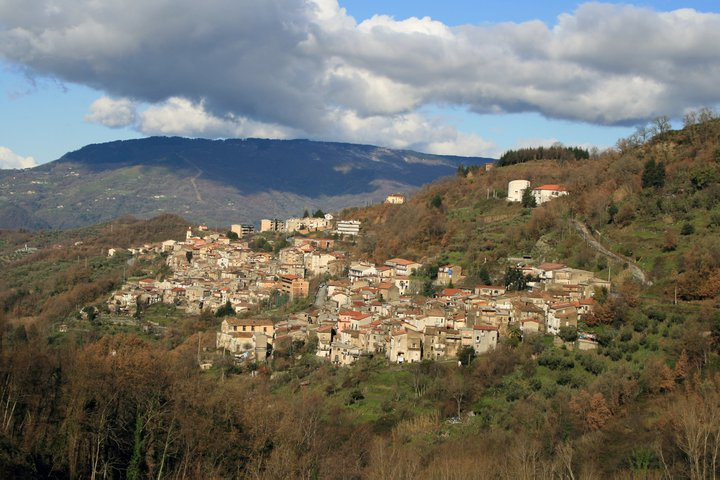 view of Conflenti (cz)